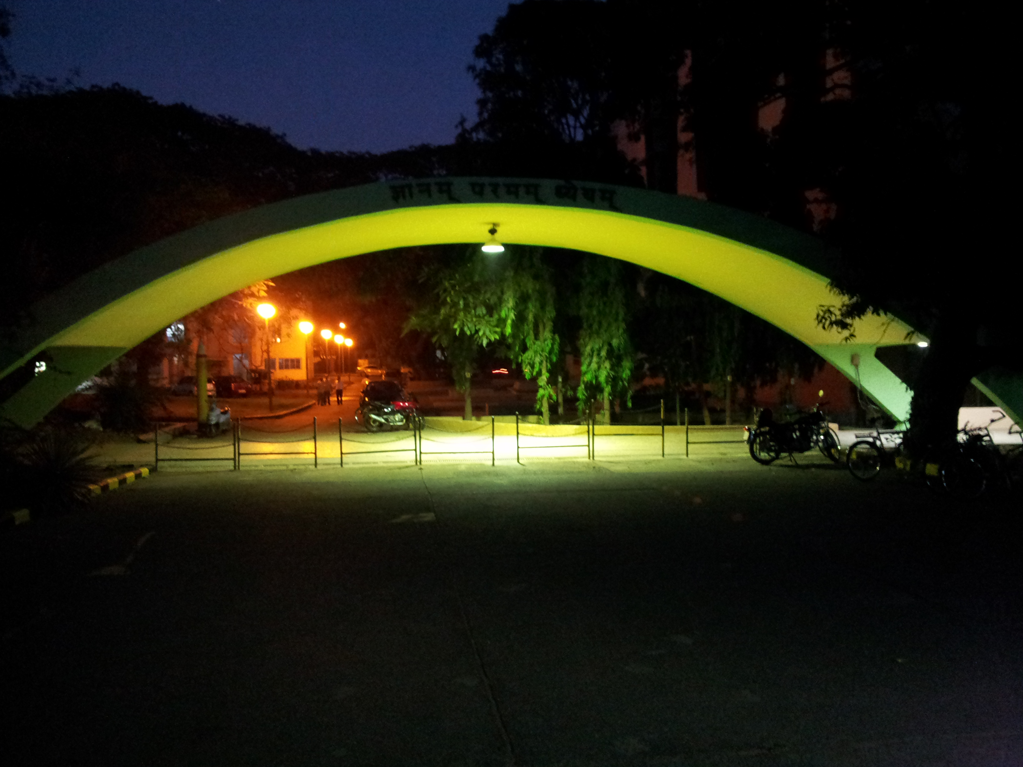 IIT Bombay